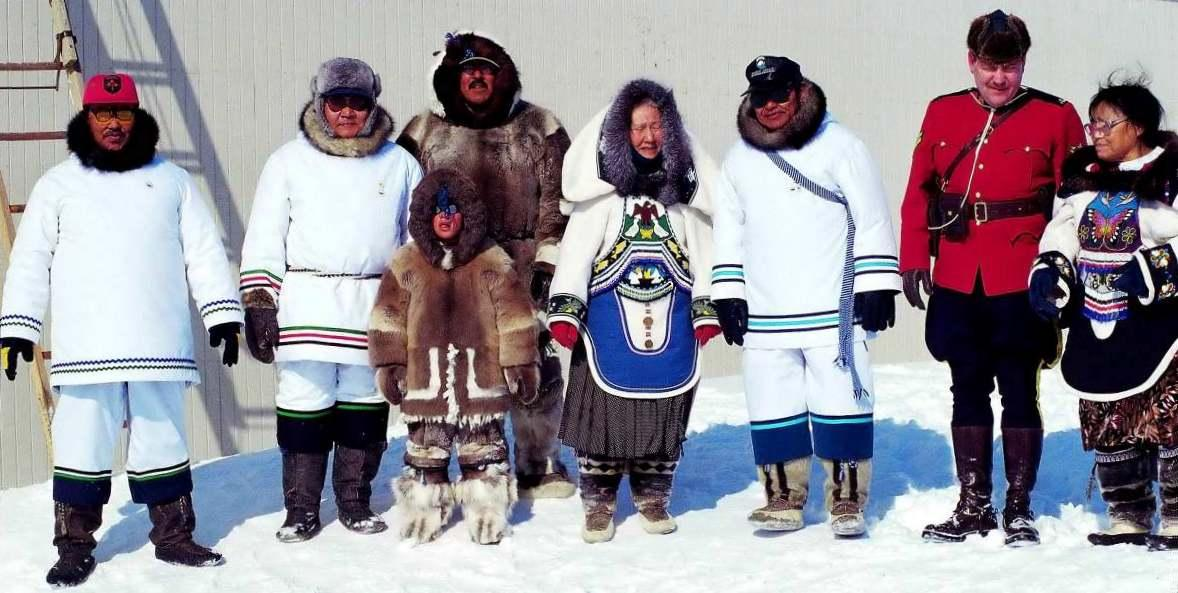 Ceremony on the occasion of the foundation of Nunavut, April 1st 1999